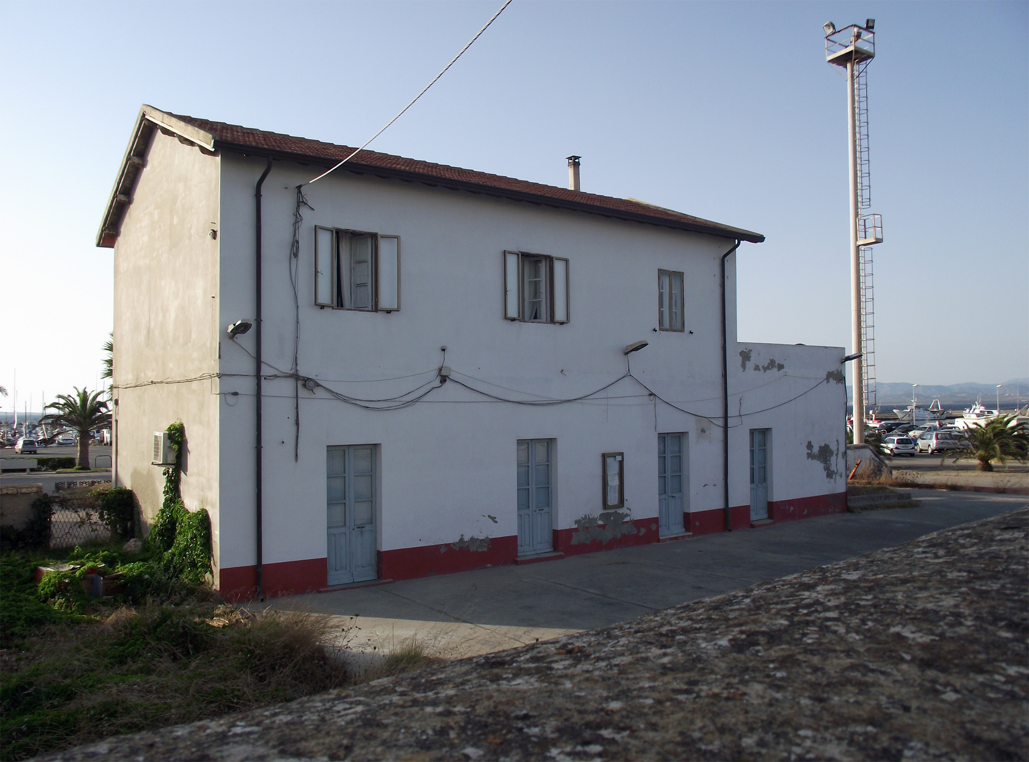 The former FMS railway station of Calasetta, Sardinia, Italy, terminus of the railway Siliqua-San Giovanni Suergiu-Calasetta, closed in 1974.